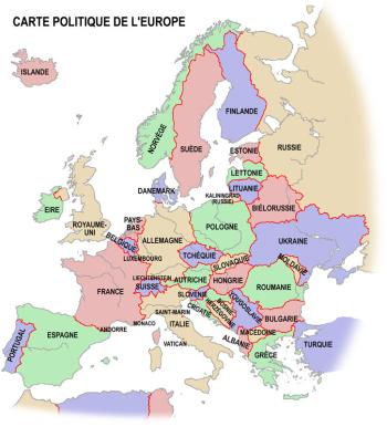 A general map of Europe made by Brion VIBBER, with English names added by Scipius. See Maps and images for Wikipedia for more information. French version originally uploaded to .